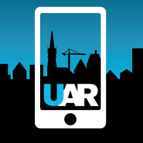 UAR logo